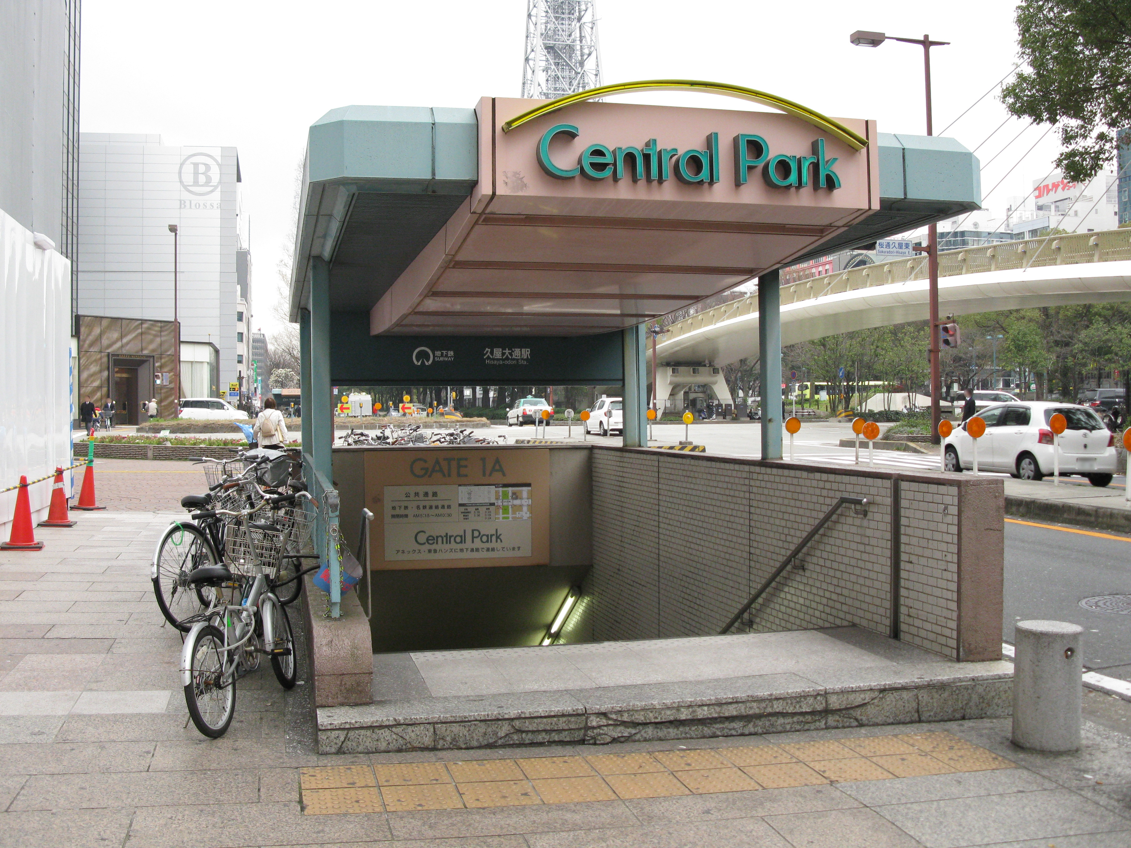 Hisaya-ōdōri Station no.1A entrance (Nagoya Municipal Subway Meijō Line, Sakura-dōri Line)